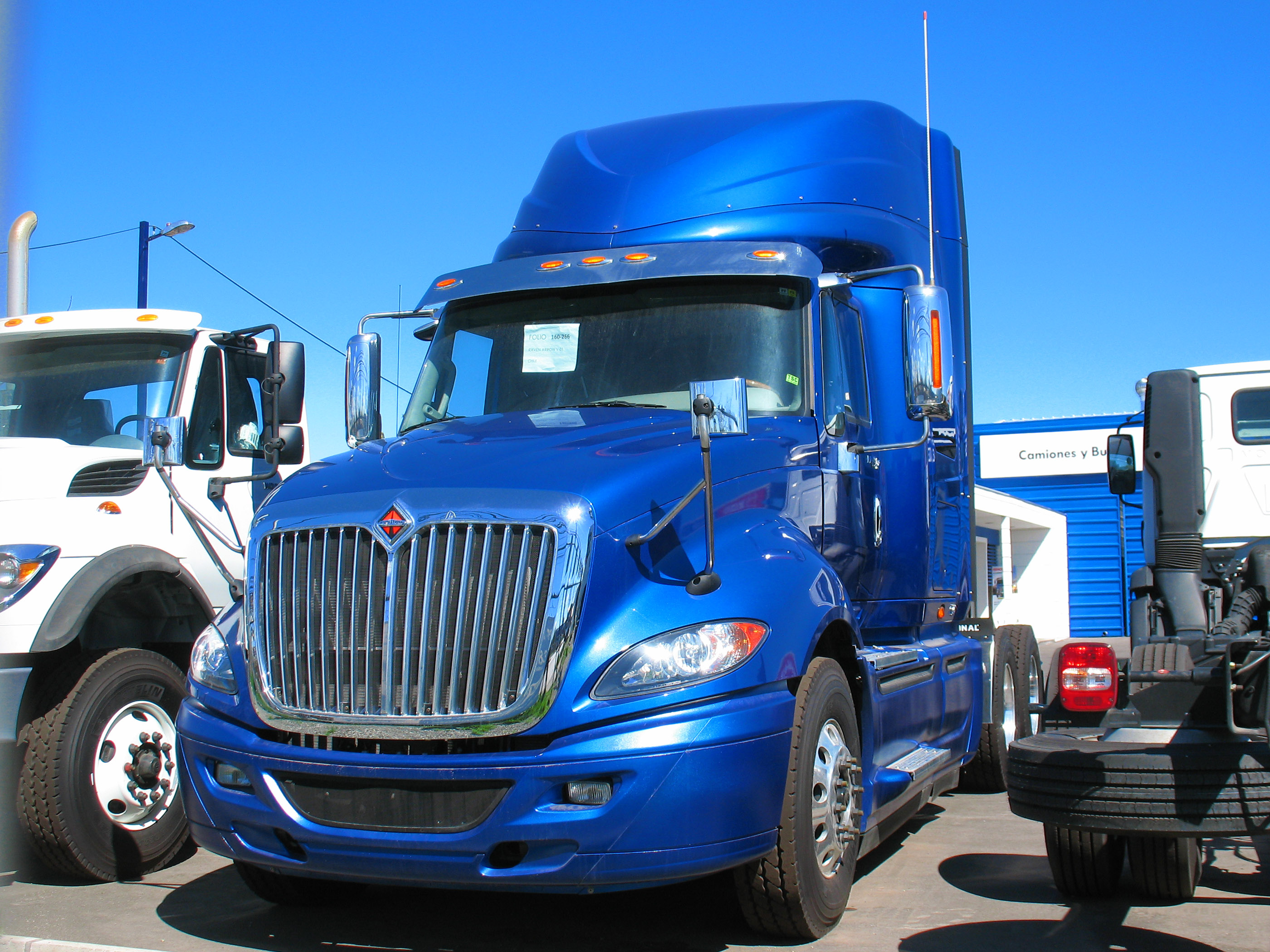 International Prostar Plus 2013